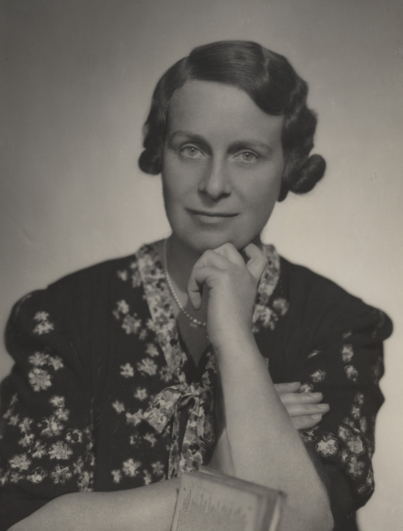 b/w portrait of Caroline Haslett when she became director of EAW